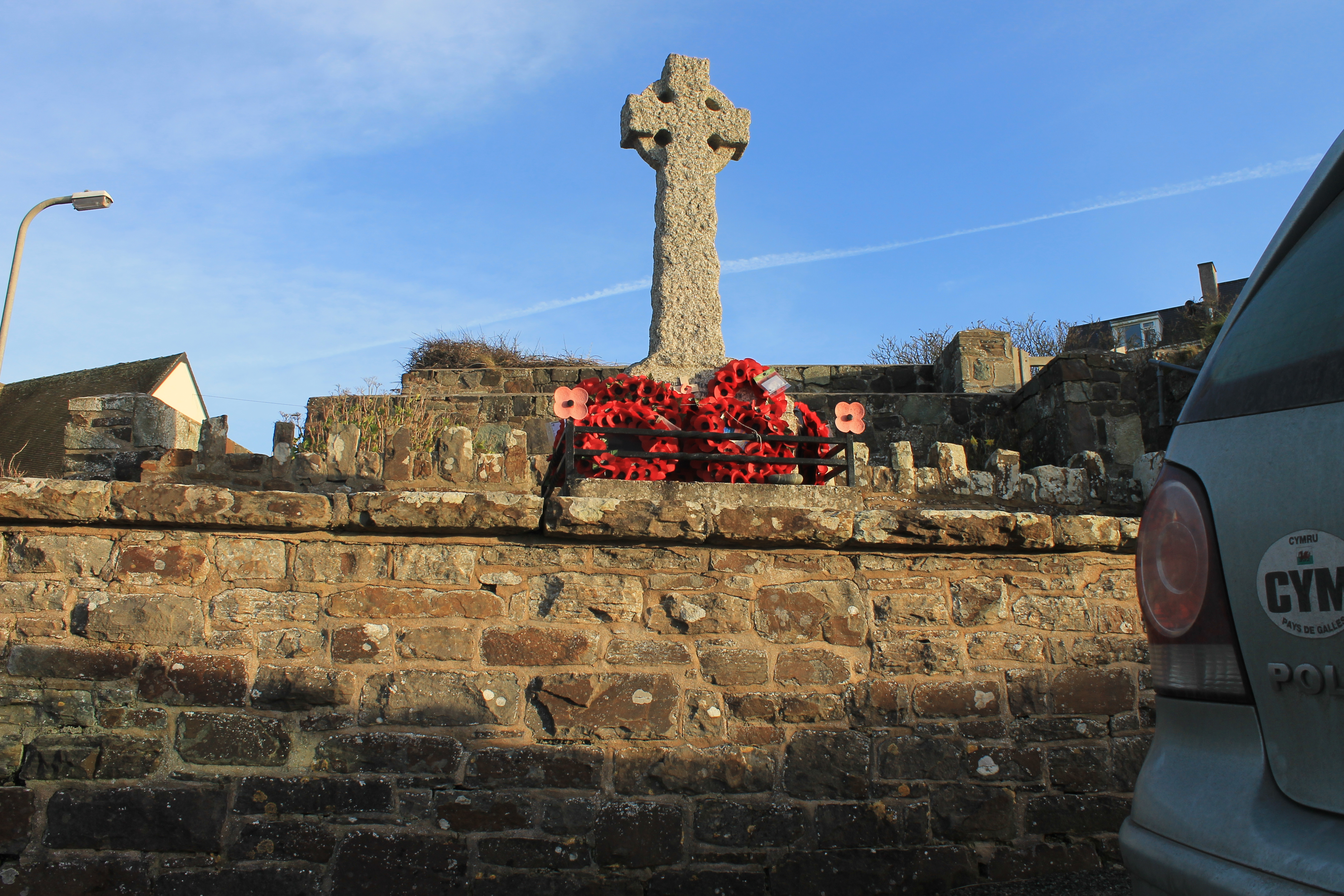 Broad HavenCymraeg: Traeth Llydan